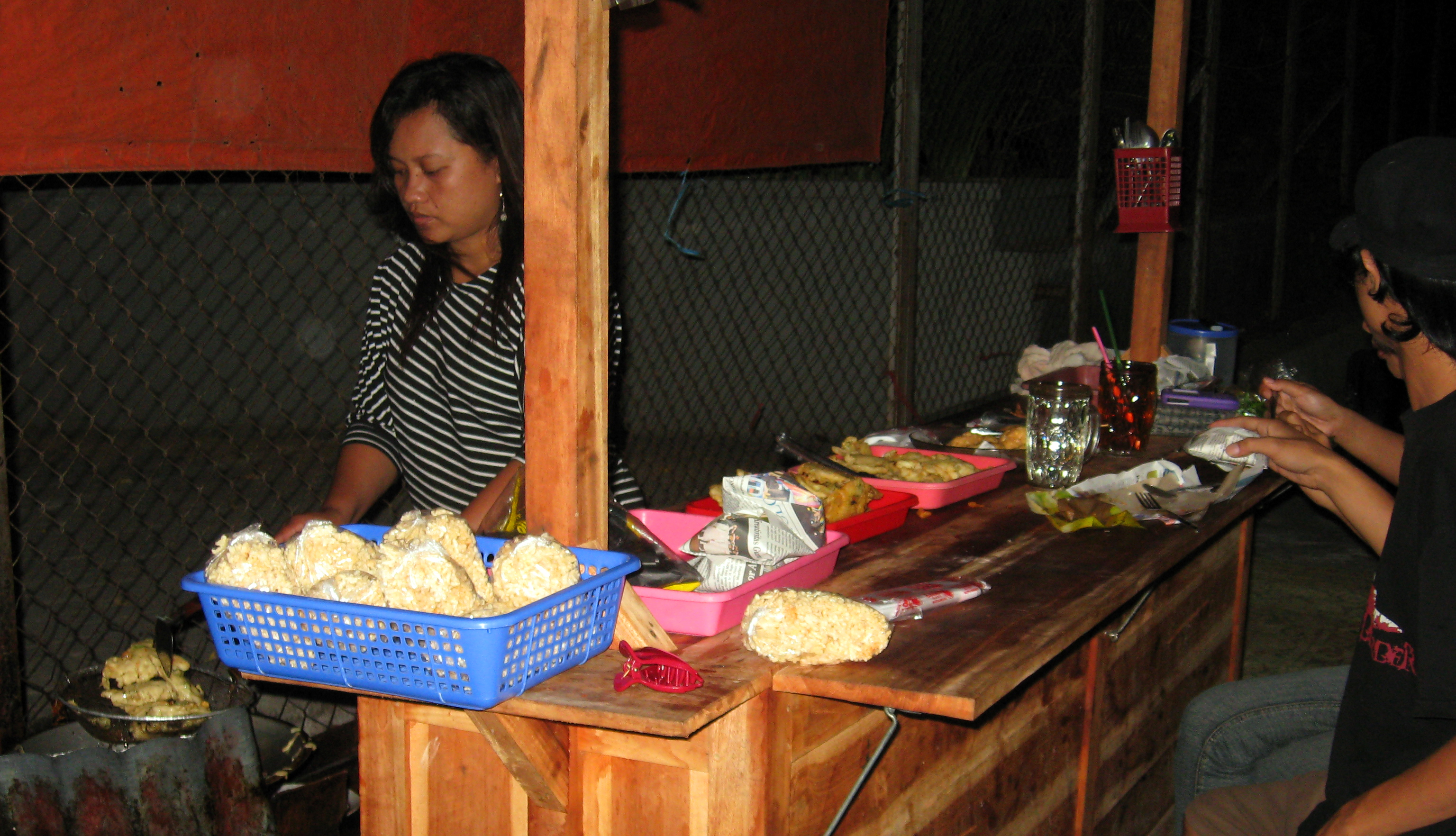 A seller at an angkringan cooks tempeh while two buyers eat. Wrapped nasi kucing is visible in a pink bin in the foreground